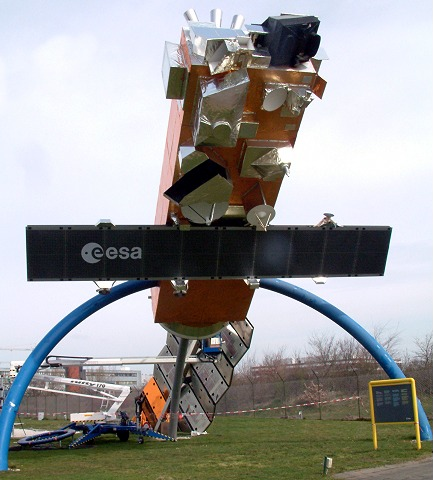 Model of Envisat in original size. See scaffolding and person near golden solar panel on the left for reference of size.